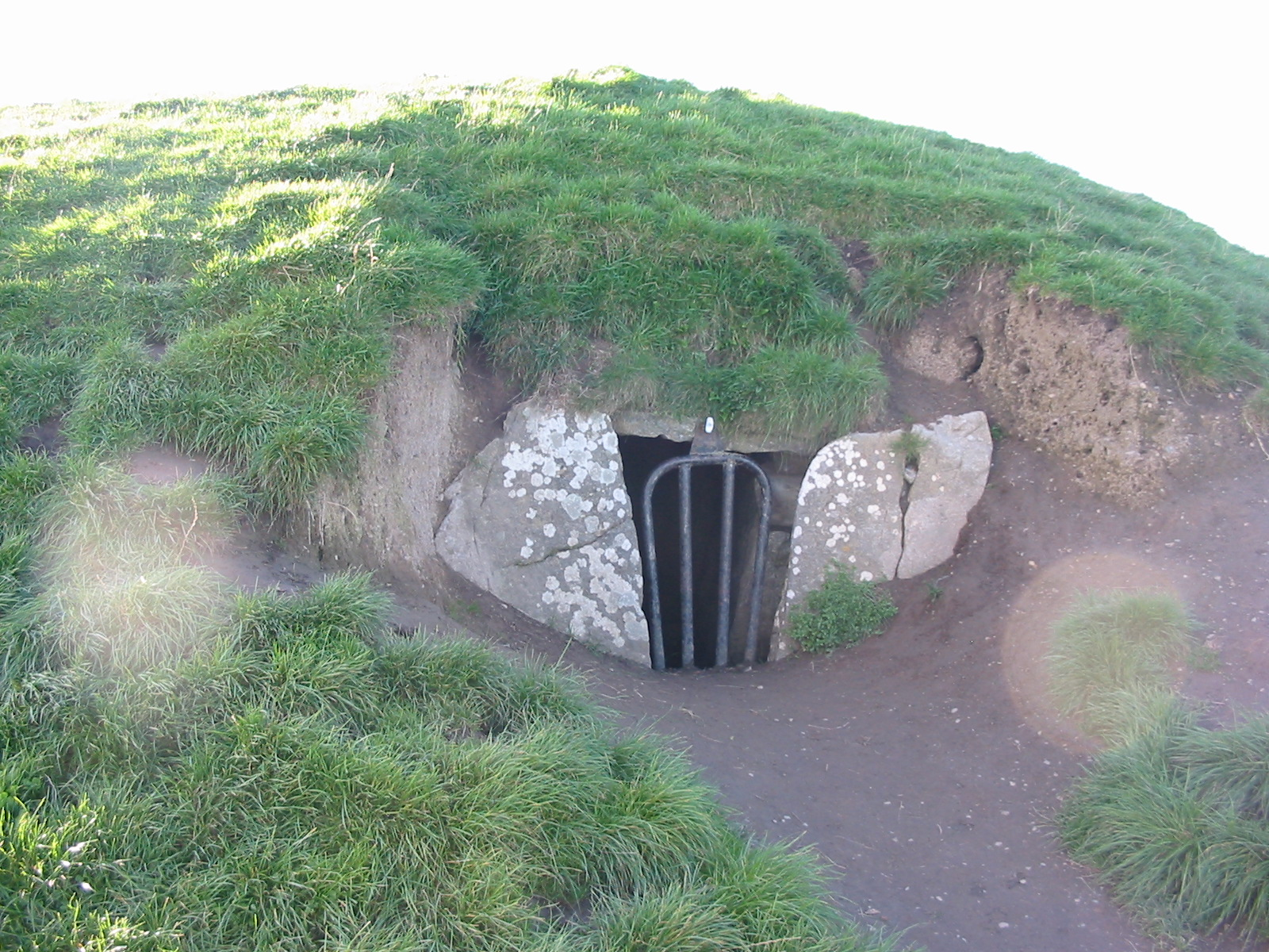 Site of the Hill of Tara, County Meath, Ireland